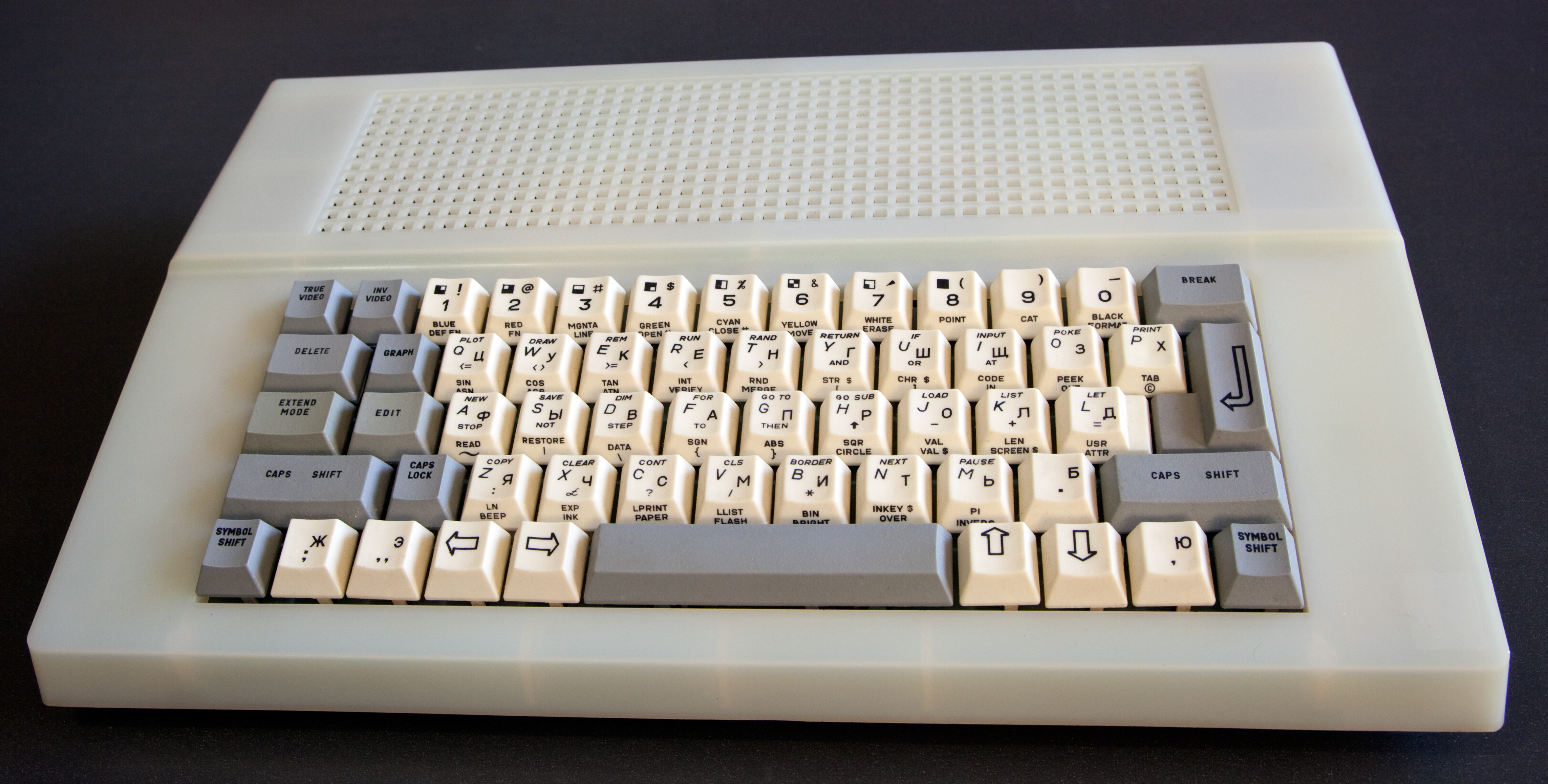 Delta-C personal computer, ZX Spectrum+ clone